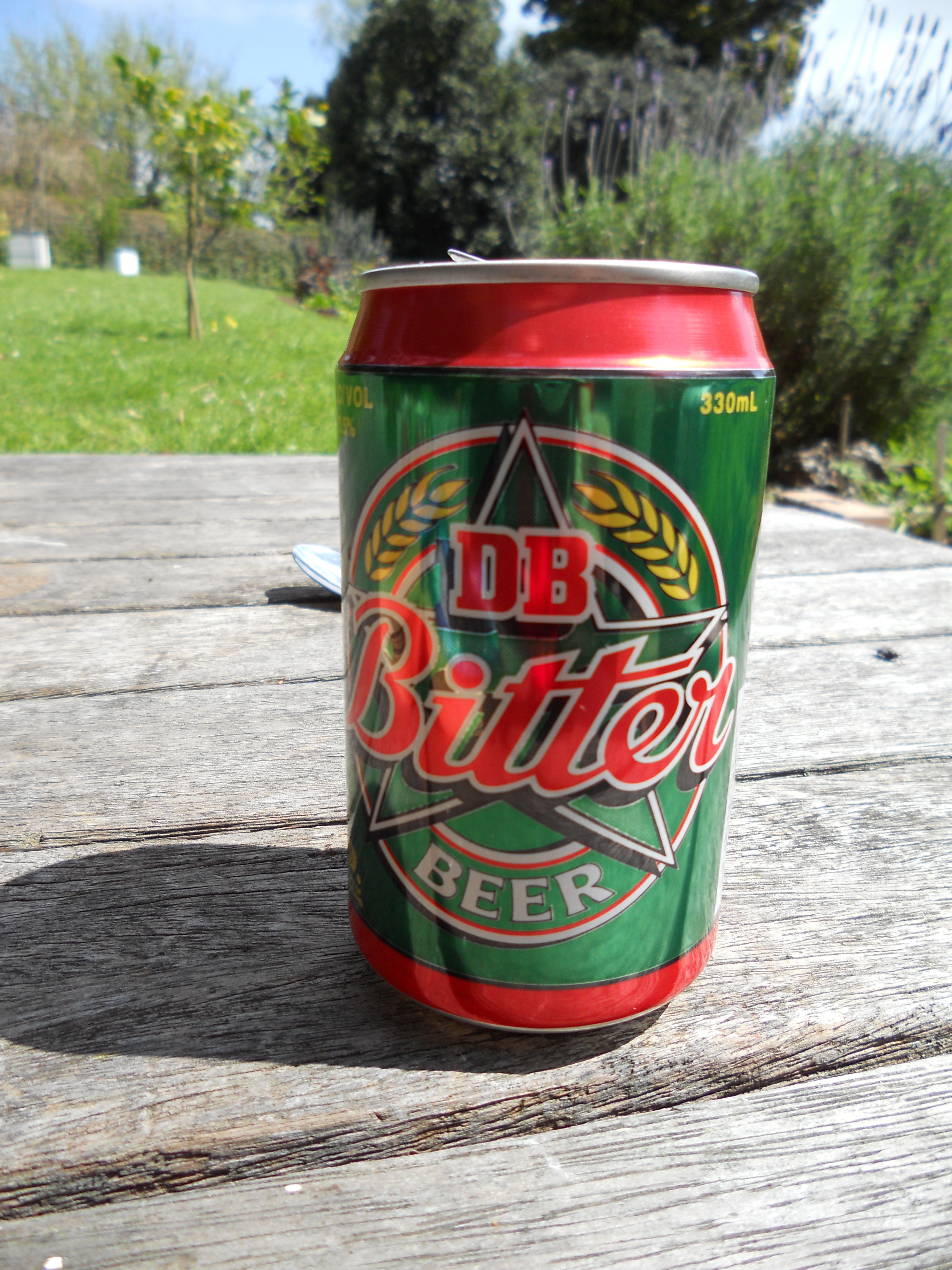 Photograph of a DB Breweries Bitter Beer can.